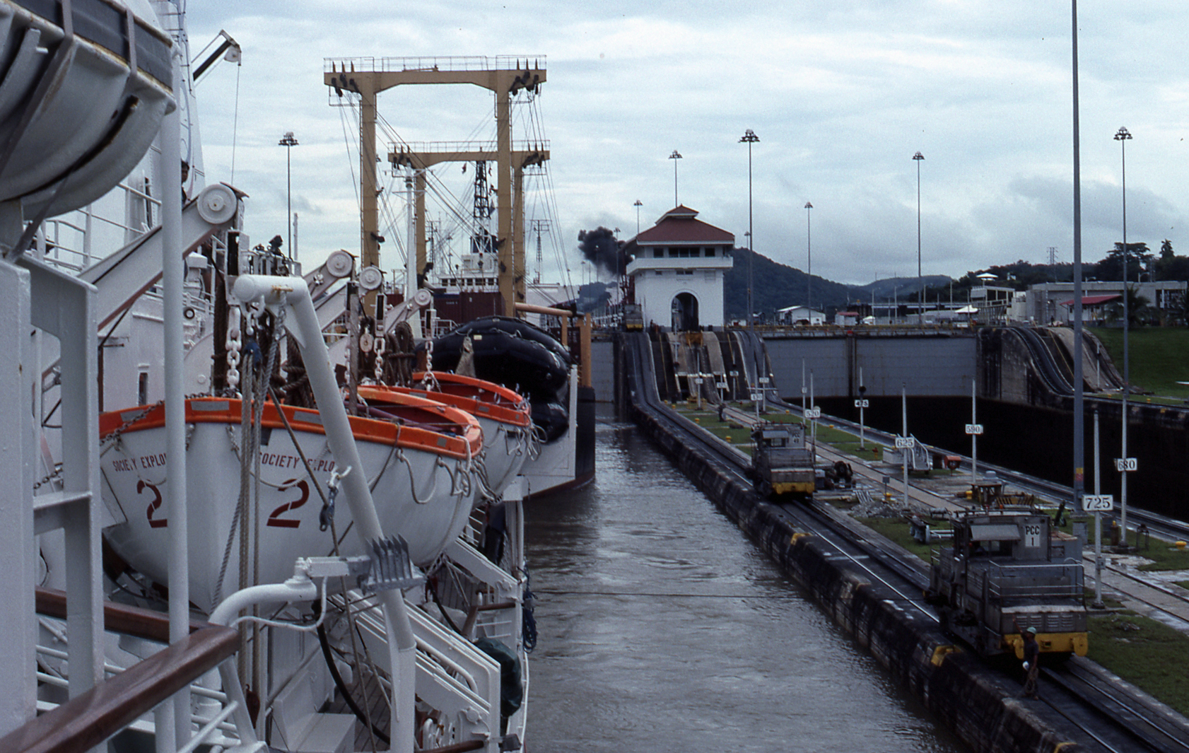 Society Explorer in Panama canal